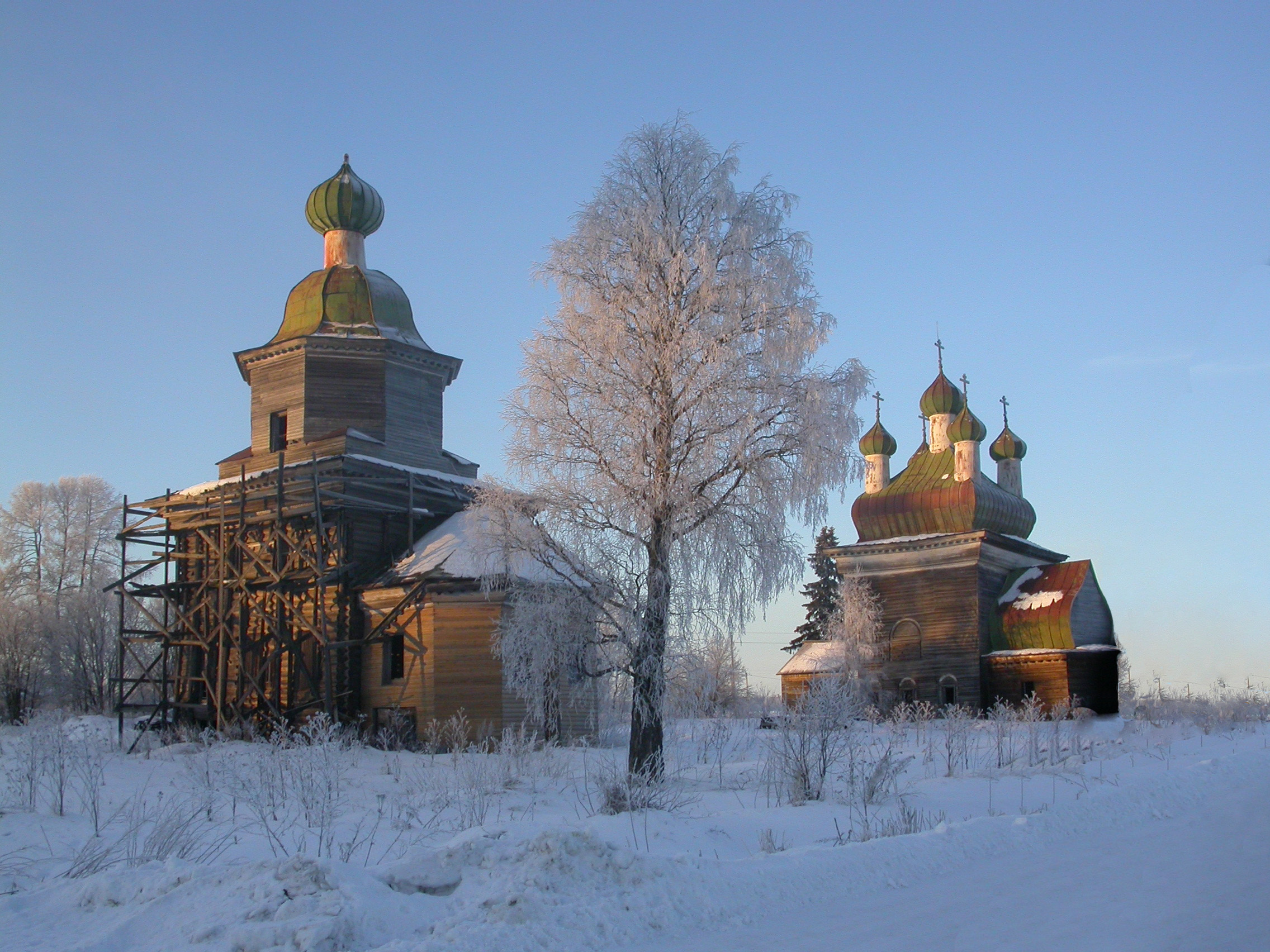 Kargopol (Russia)